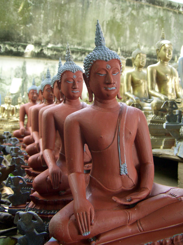 A Buddha casting factory in Phitsanulok, Thailand.